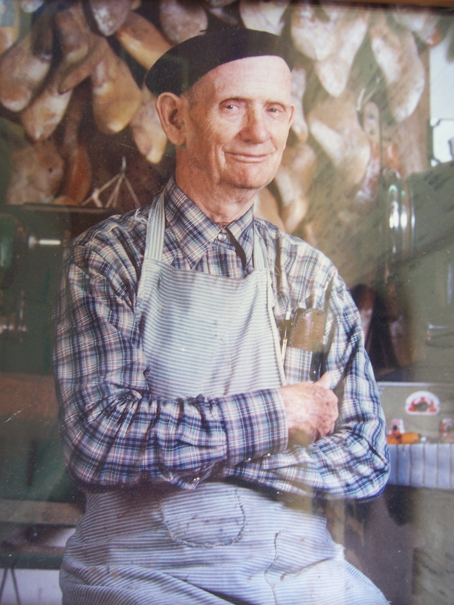 Charlie Dunn pictured in bootmaking shop